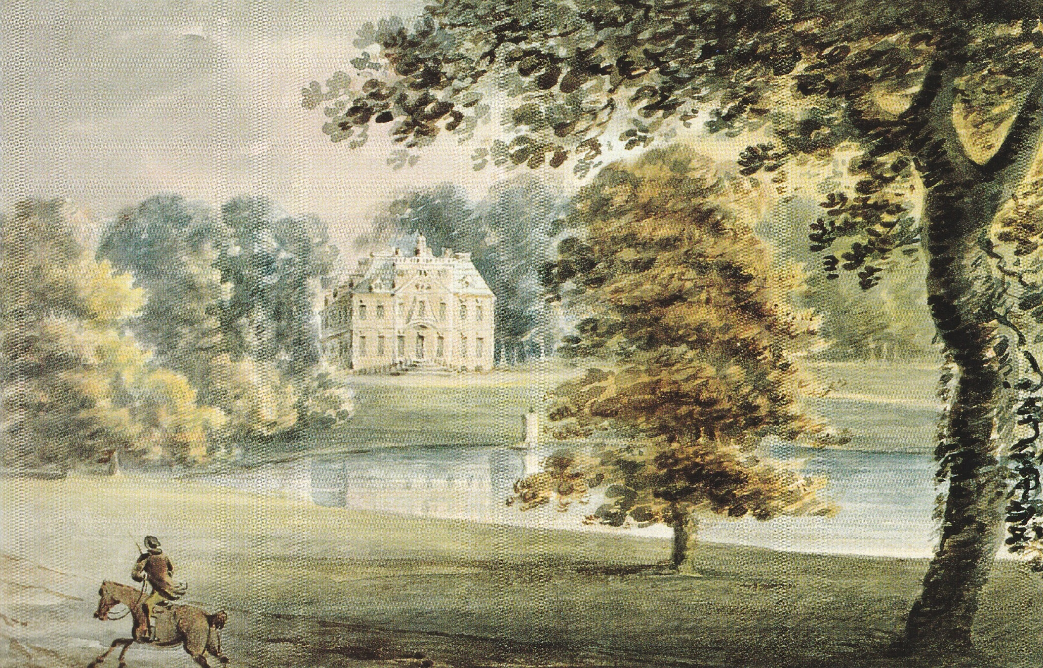 Escot House in the parish of Talaton, Devon, 1794 watercolour by Rev John Swete (d.1821). Devon Record Office: DRO 564M/F7/7